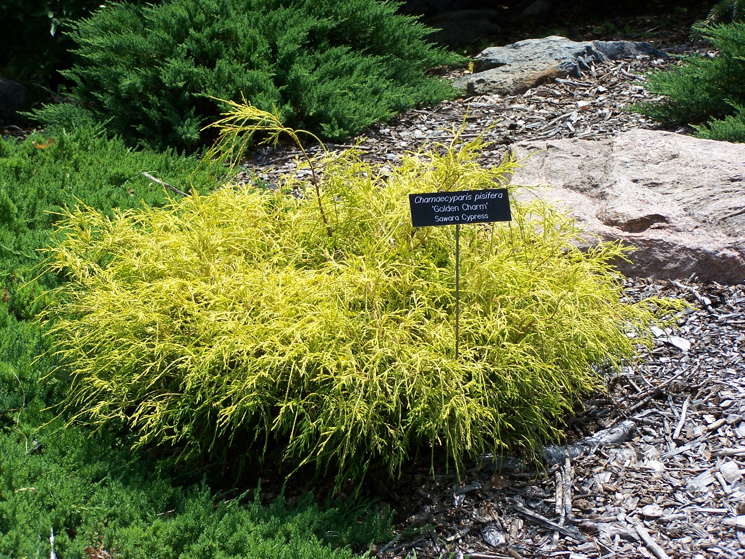 Chamaecyparis pisifera 'Golden Charm' Sawarea Cypress at Minnesota Landscape Arboretum